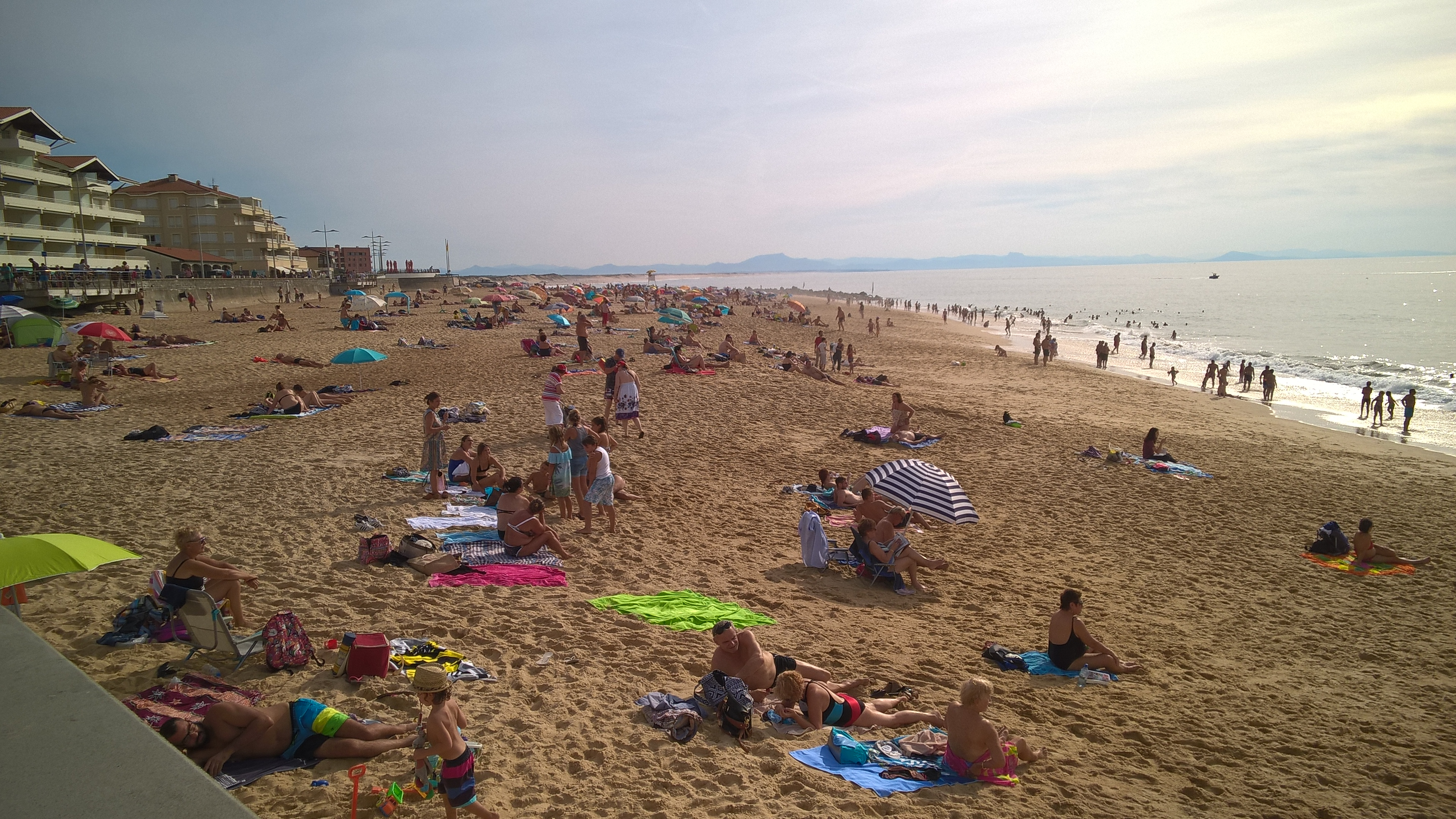 In september, beach of Capbreton (Landes, France).